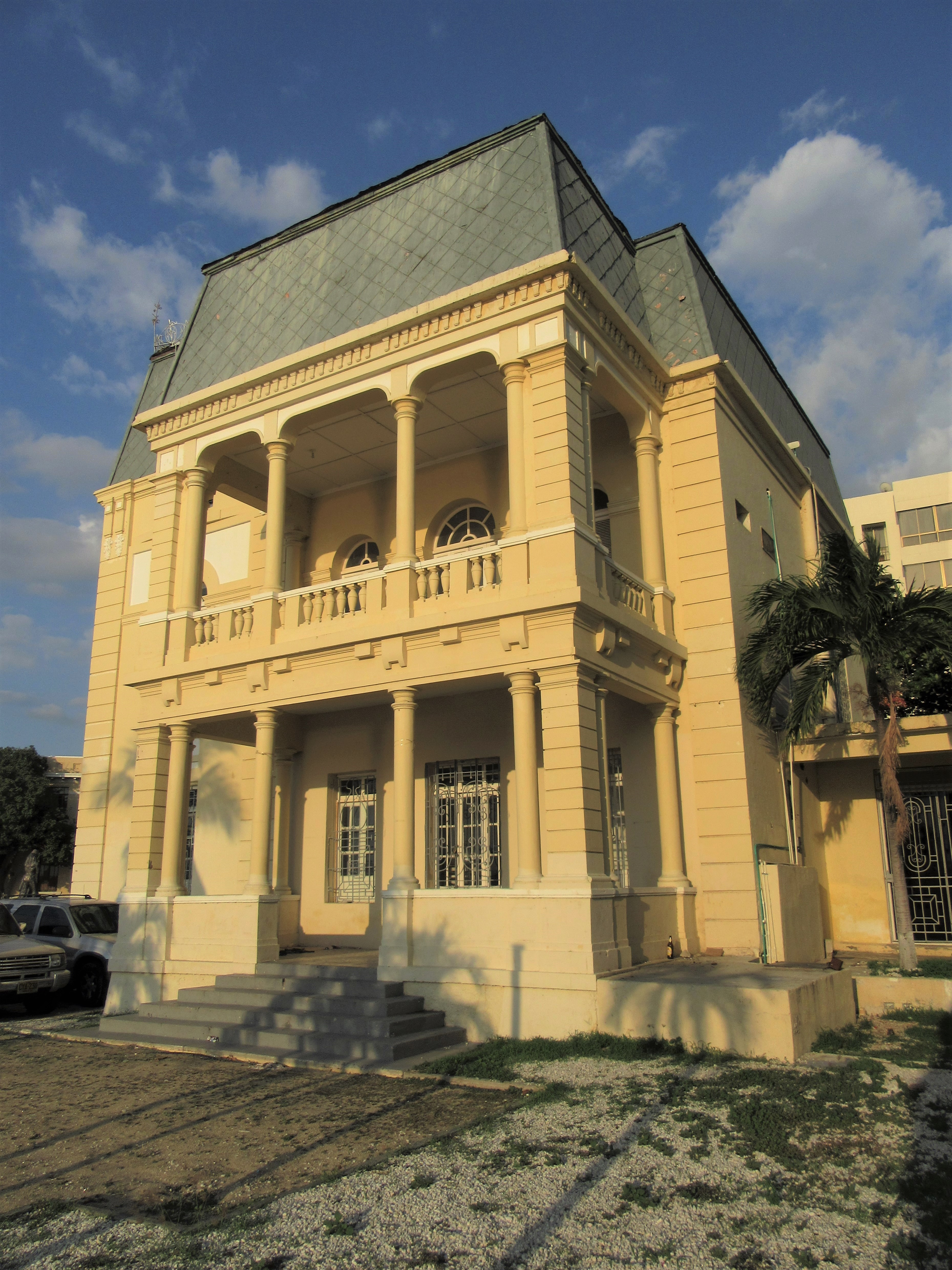 Santa Marta